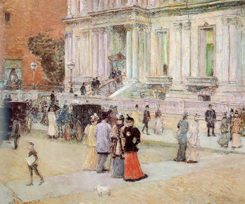 The Manhattan Club (The Stewart Mansion). Childe Hassam, 1891, oil on canvasmedium QS:P186,Q296955;P186,Q4259259,P518,Q861259.